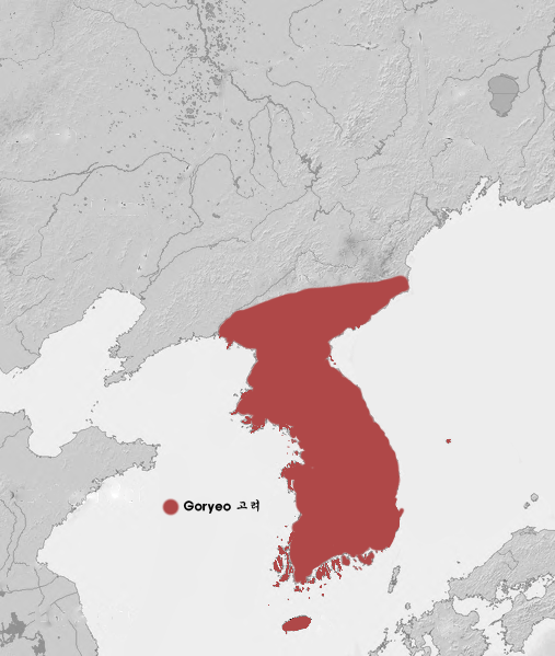 Goryeo in 1389.